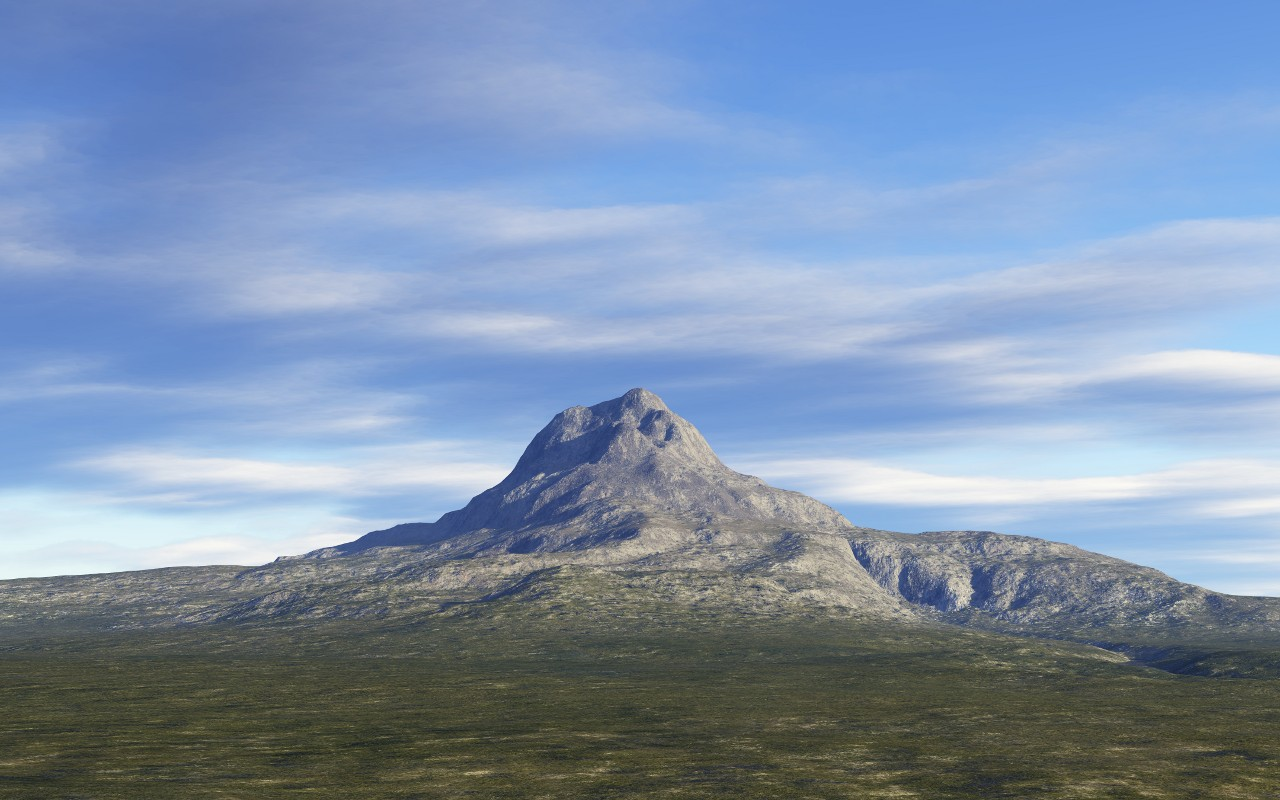 Artists depiction of Lonely Mountain, a mountain from J. R. R. Tolkien's Middle-earth.